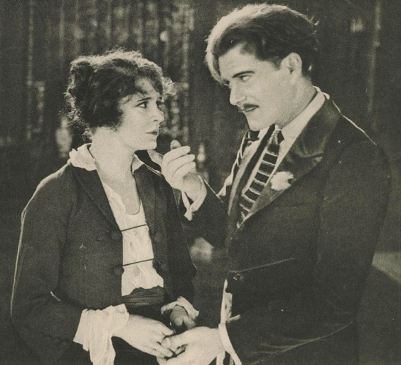 Alice Lake and Bert Lytell in the American film Lombardi, Ltd. (1919) - lobby card, cropped (original image : see source).